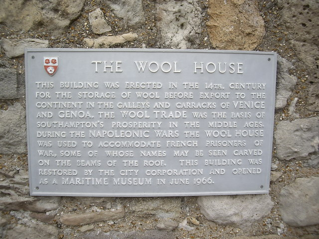 'The Wool House' plaque On the wall of the restored building that now serves as a Maritime Museum.